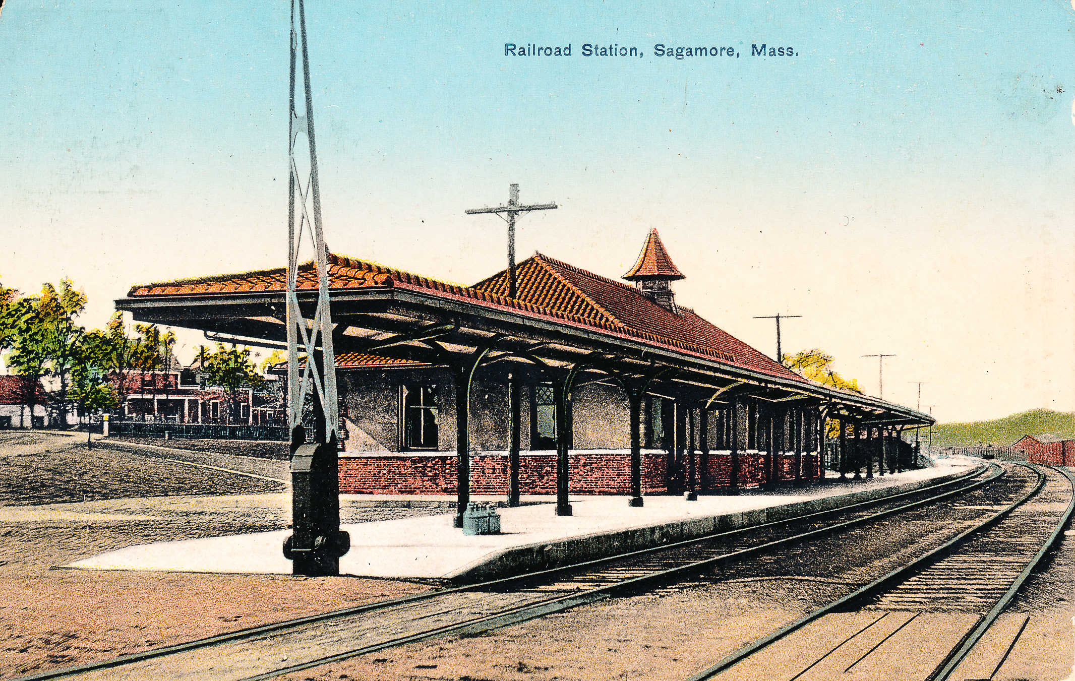 An early postcard showing the former Sagamore, Massachussetts train station on Cape Cod.